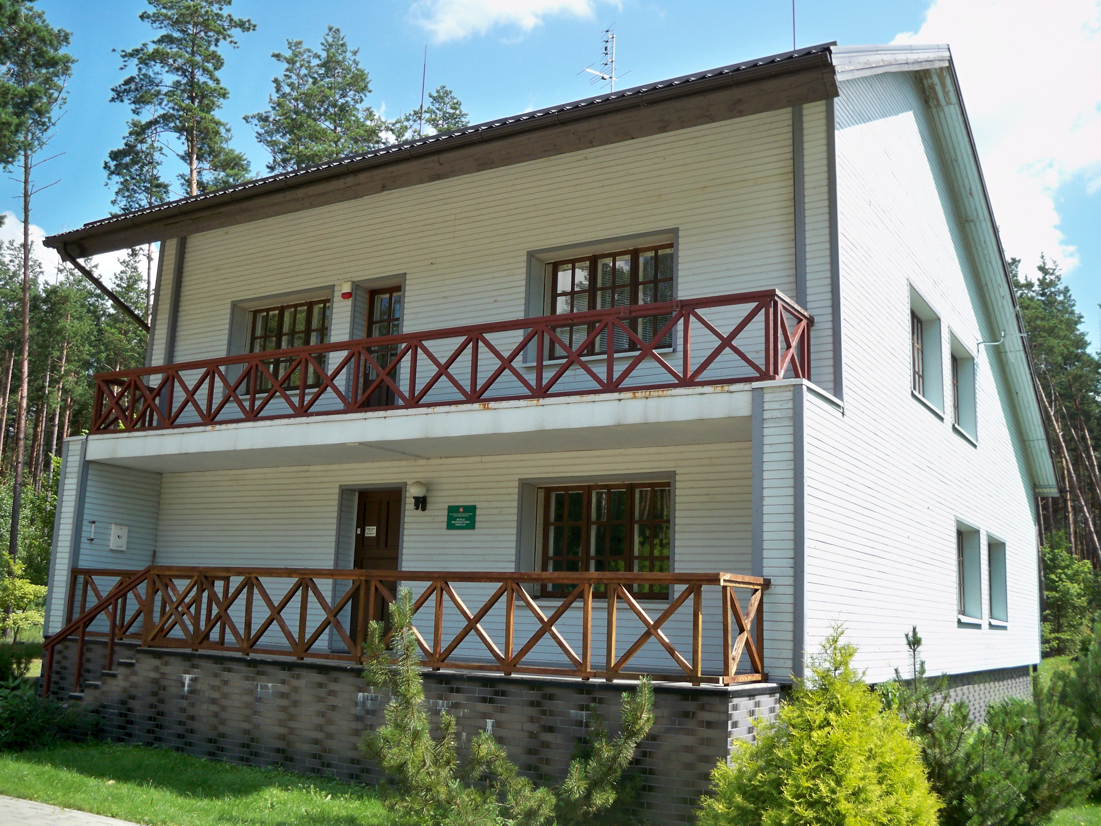 Meteliai regional park: headquarters.